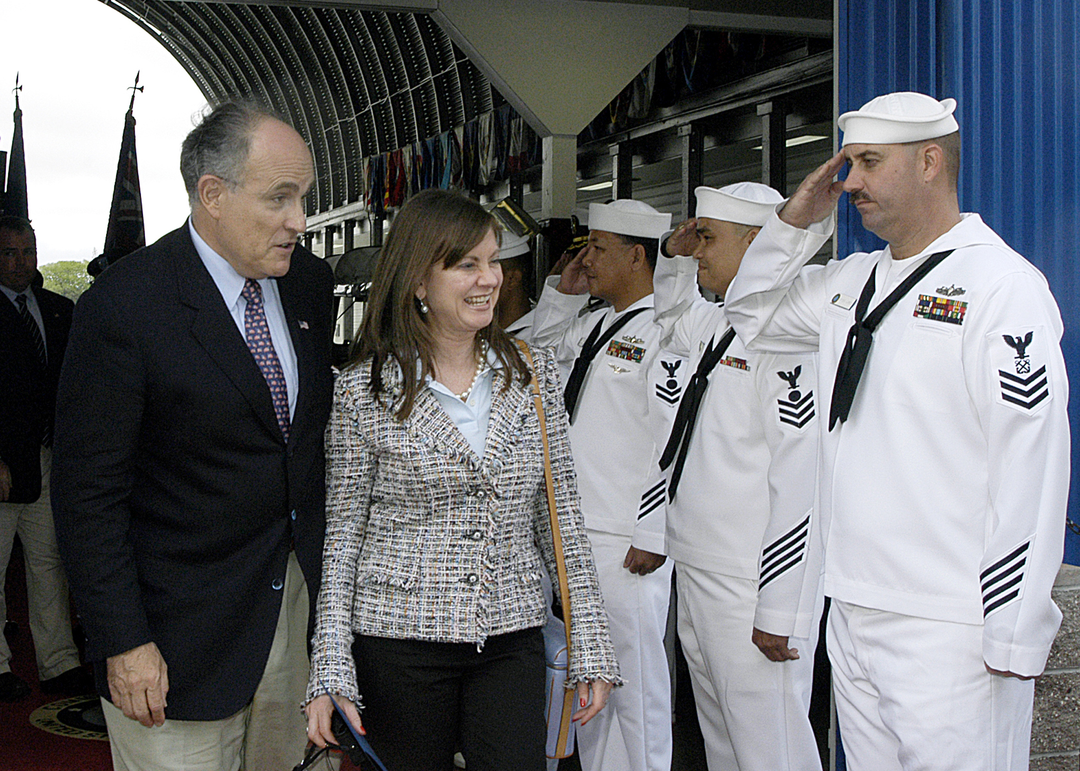 Pearl Harbor, Hawaii (Mar. 20, 2004) - Side Boys assigned to Naval Station Pearl Harbor, Hawaii render honors after Adm. Walter F. Dorn, Commander Pacific Fleet, and his wife hosted a barge cruise in honor of Mr. and Mrs. Rudy Giuliani during their brief visit to Pearl Harbor, Hawaii. U.S. Navy photo by Photographer's Mate 1st Class Evelyn P. Haywood. (RELEASED)